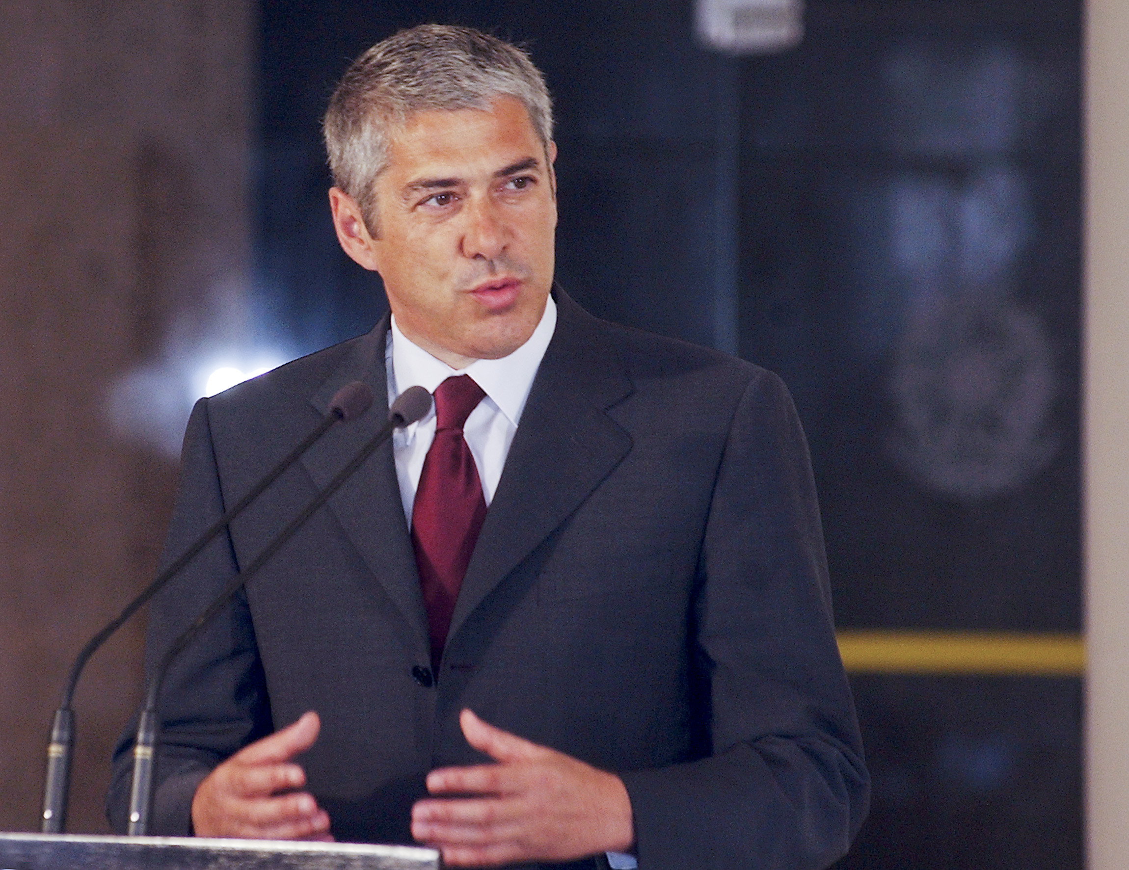 José Sócrates, prime minister of Portugal in Brasília